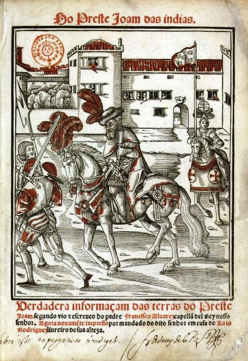 A drawing about Prester John